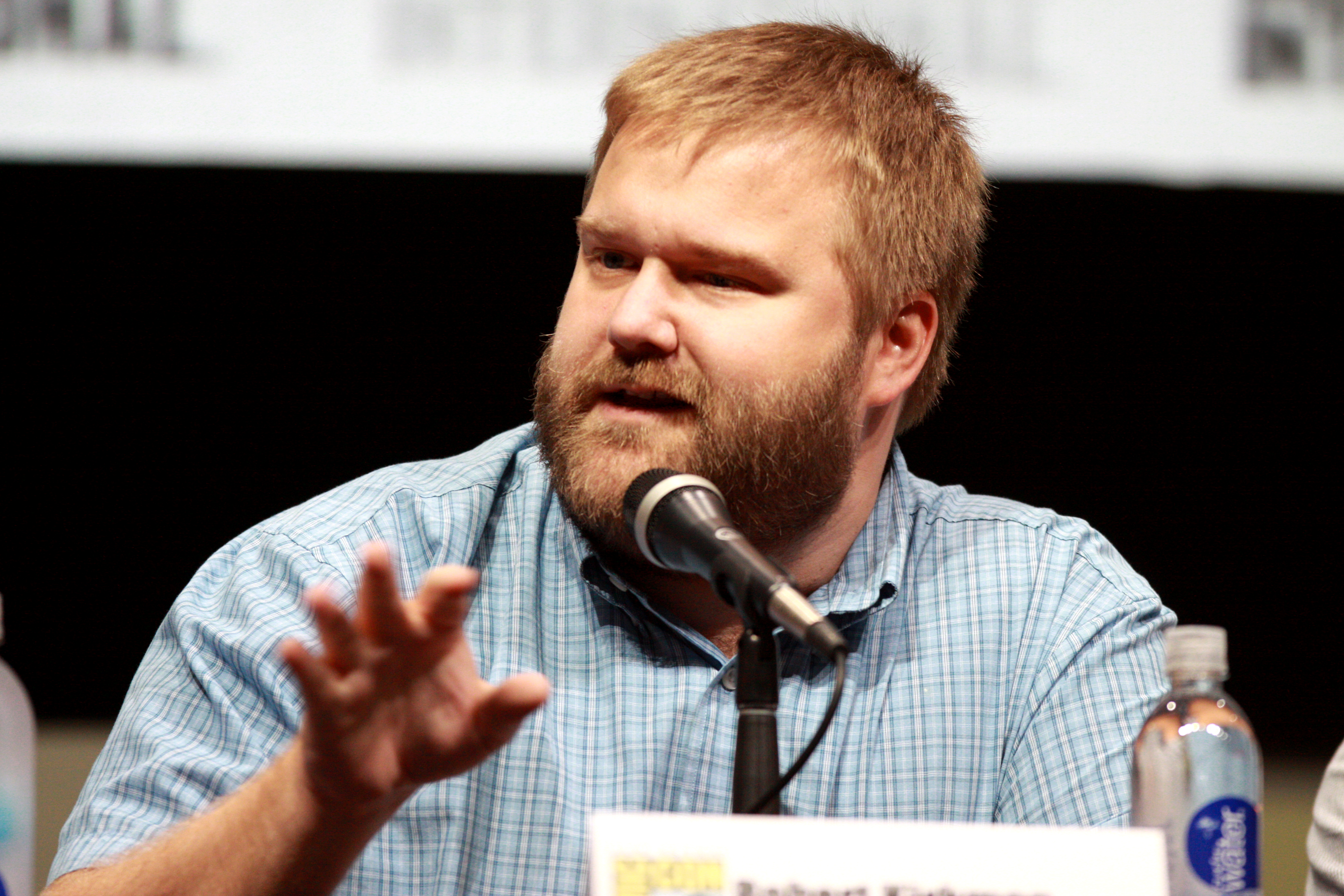 Robert Kirkman speaking at the 2013 San Diego Comic Con International, for "The Walking Dead", at the San Diego Convention Center in San Diego, California.